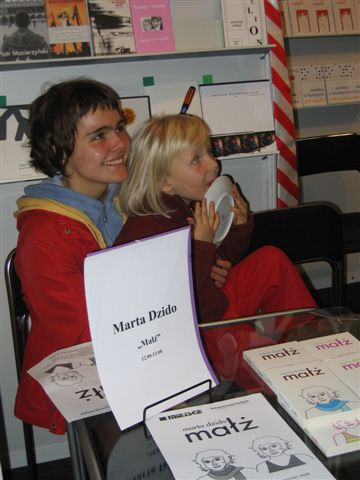 Marta Dzido (b. 1981), Polish writer